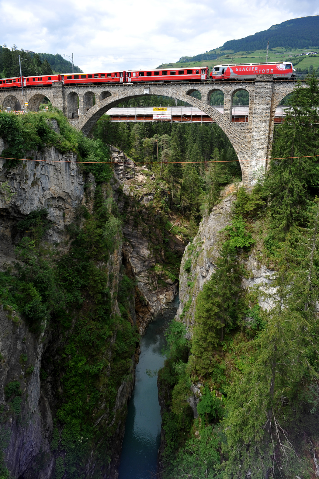 Solis viaduct with RhB-train and locomotive 651 (Ge 4/4 III) «Glacier on tour» to Tiefencastel; Graubünden, Switzerland.